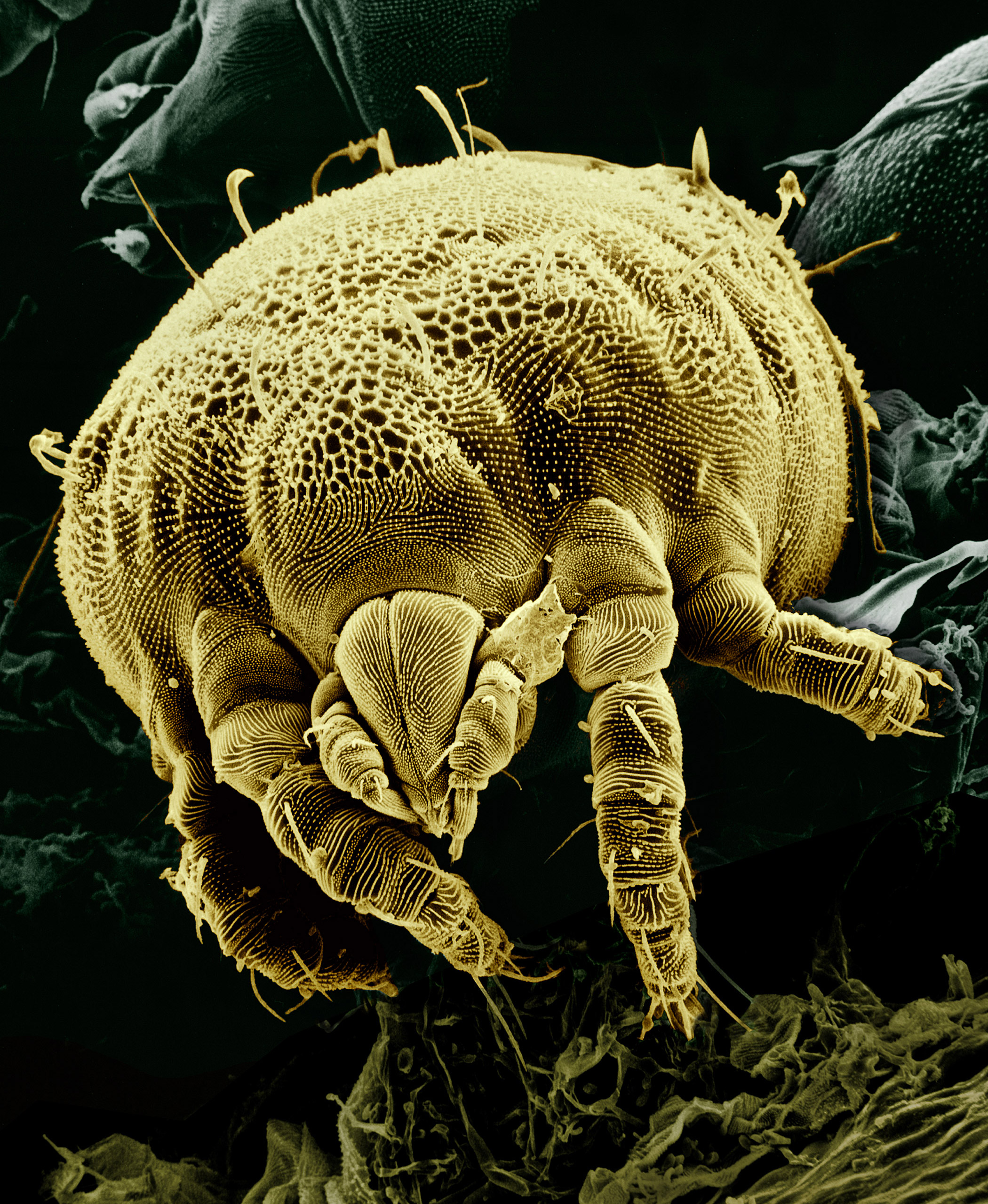 Historically, mites have been difficult to study because of their minute size. But now, ARS scientists are freezing mites in their tracks and using scanning electron microscopy to observe them in detail. Here a yellow mite, Lorryia formosa, commonly found on citrus plants, is shown among some fungi. False color. Magnified about 850x.